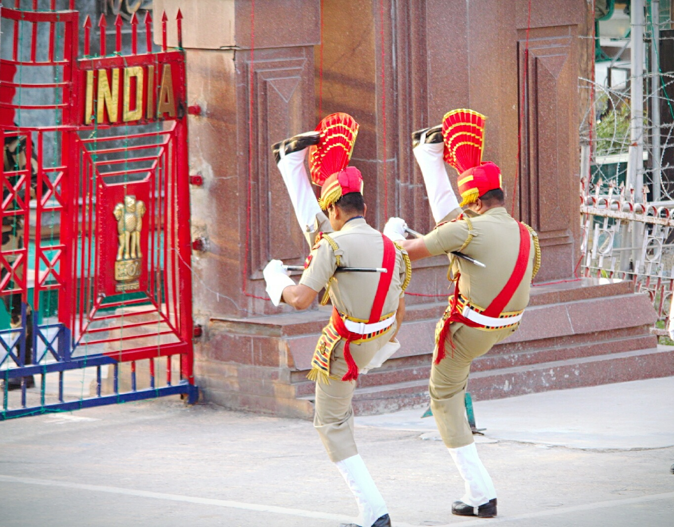 Two Indian Soldier marching during flag ceremony at Wagah Border